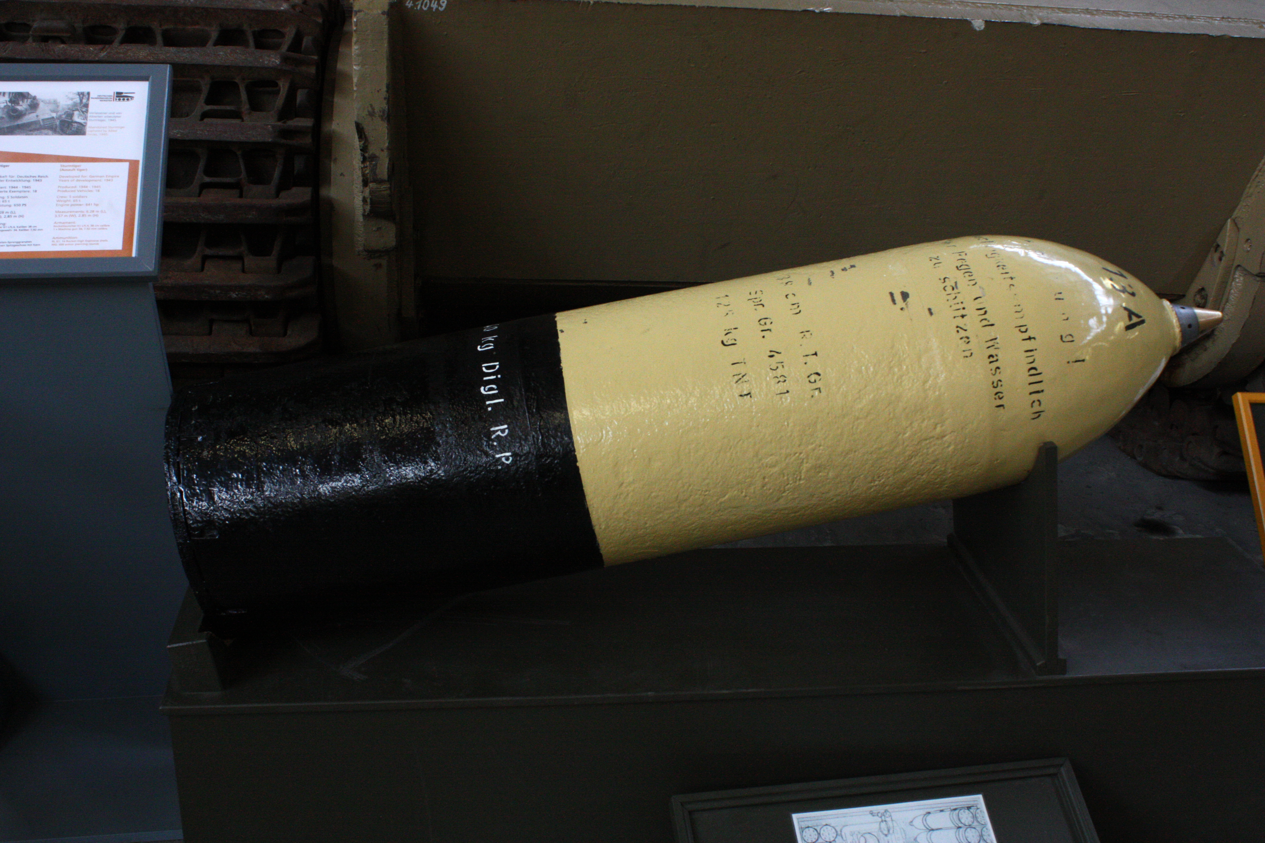 German Tank Museum